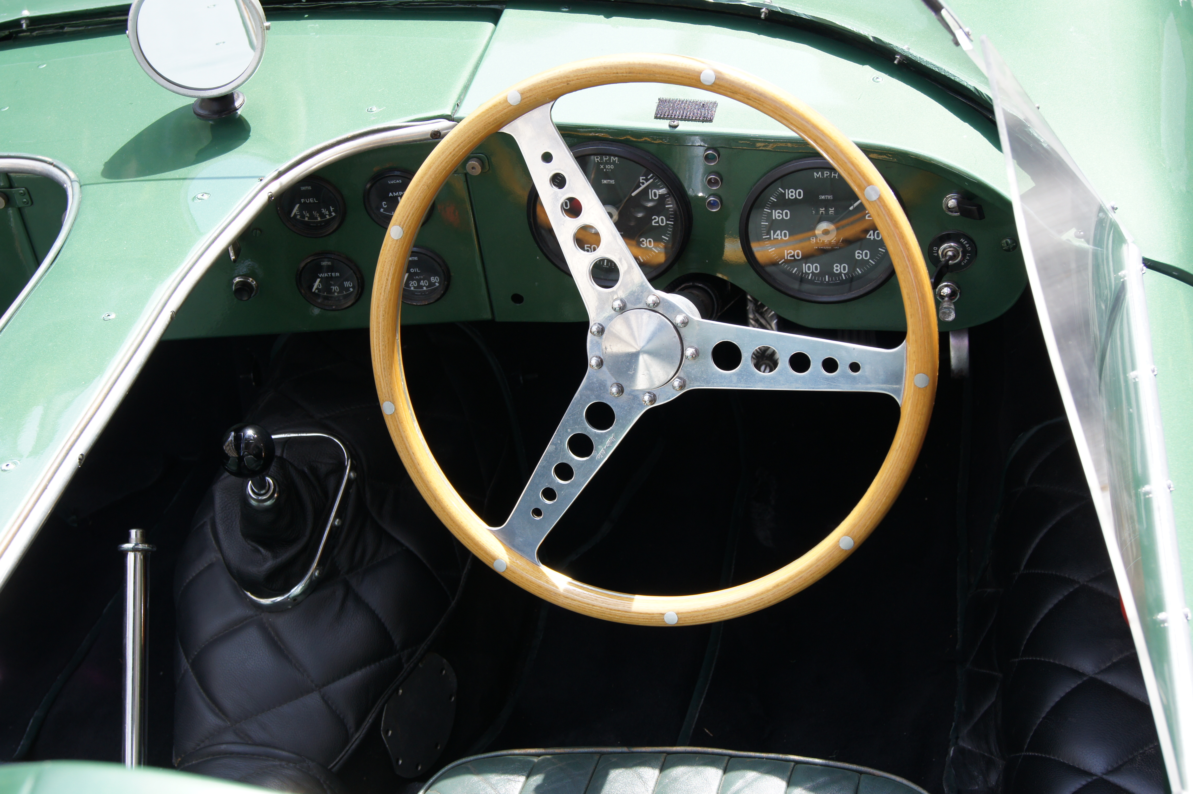 driving cockpit of a Jaguar D-Type.